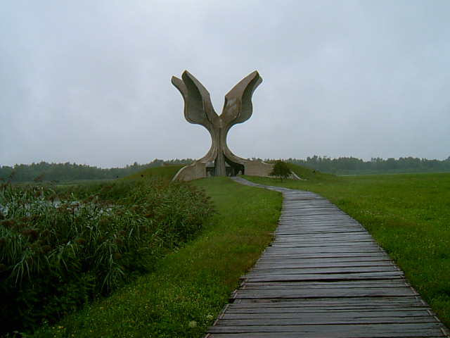 Monument to Jasenovac concentration camp.